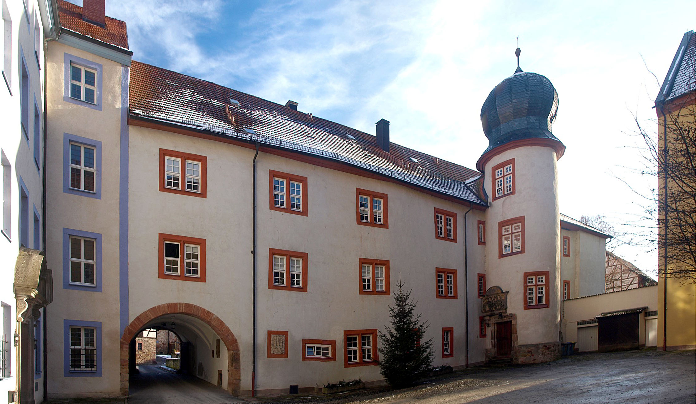 View of red castle from inner courtyard in town Tann (Rhön)